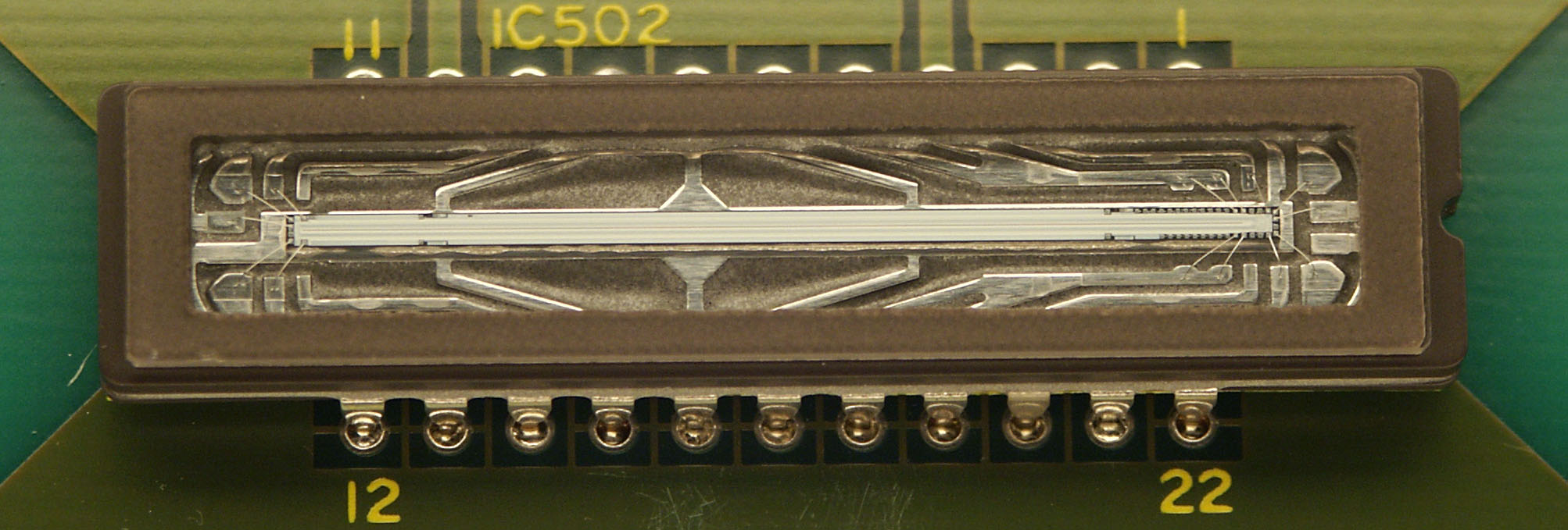 Toshiba TCD102D CCD line sensor in a ceramic dual in-line package, soldered on a printed circuit board. Component length is 41mm. The sensor has been salvaged from a Toshiba facsimile device.